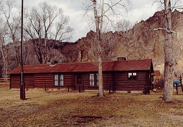 Wapiti Ranger Station in Shoshone National Forest is the oldest remaining ranger station on federal land within the U.S.